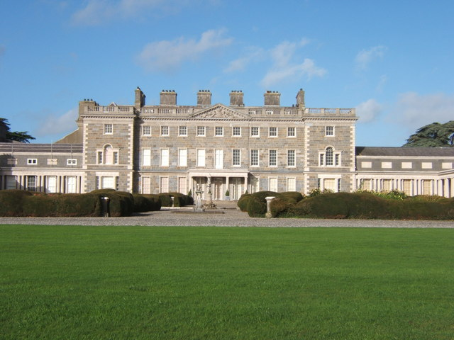 Carton House, Carton Demesne, Maynooth, Co Kildare The first record of a house at Carton was in the 17th Century when William Talbot, recorder of the city of Dublin was given a lease of the lands by the 14th Earl of Kildare. The house and lands were forfeited to the crown in 1691 and in 1703 sold to Major General Richard Ingoldsby, Master General of the Ordnance. In 1739, the lease was sold back to the 19th Earl of Kildare who employed Richard Castles to build the existing house. Carton remained unaltered until 1815 when the 3rd Duke decided to sell Leinster House to the R.D.S. and make Carton his principle residence. He employed Richard Morrison to enlarge and re-model the house. Morrison replaced the curved colonnades with straight connecting links to obtain additional rooms including the famous Dining room. At this time the entrance to the house was moved to north side. Carton remained in the control of the FitzGeralds until the 1920s when the 7th Duke sold his birth right to a money lender Sir Harry Mallaby Deeley in order to pay off gambling debts of £67,500. He was third in line to succeed and so did not think he would ever inherit, but one of his brothers died in the war and another of a brain tumour and so Carton was lost to the Fitzgeralds. Lord Brockett purchased the house in 1949 and in 1977 his son David Nall-Cain sold the house to its present owners Lee and Mary Mallaghan.